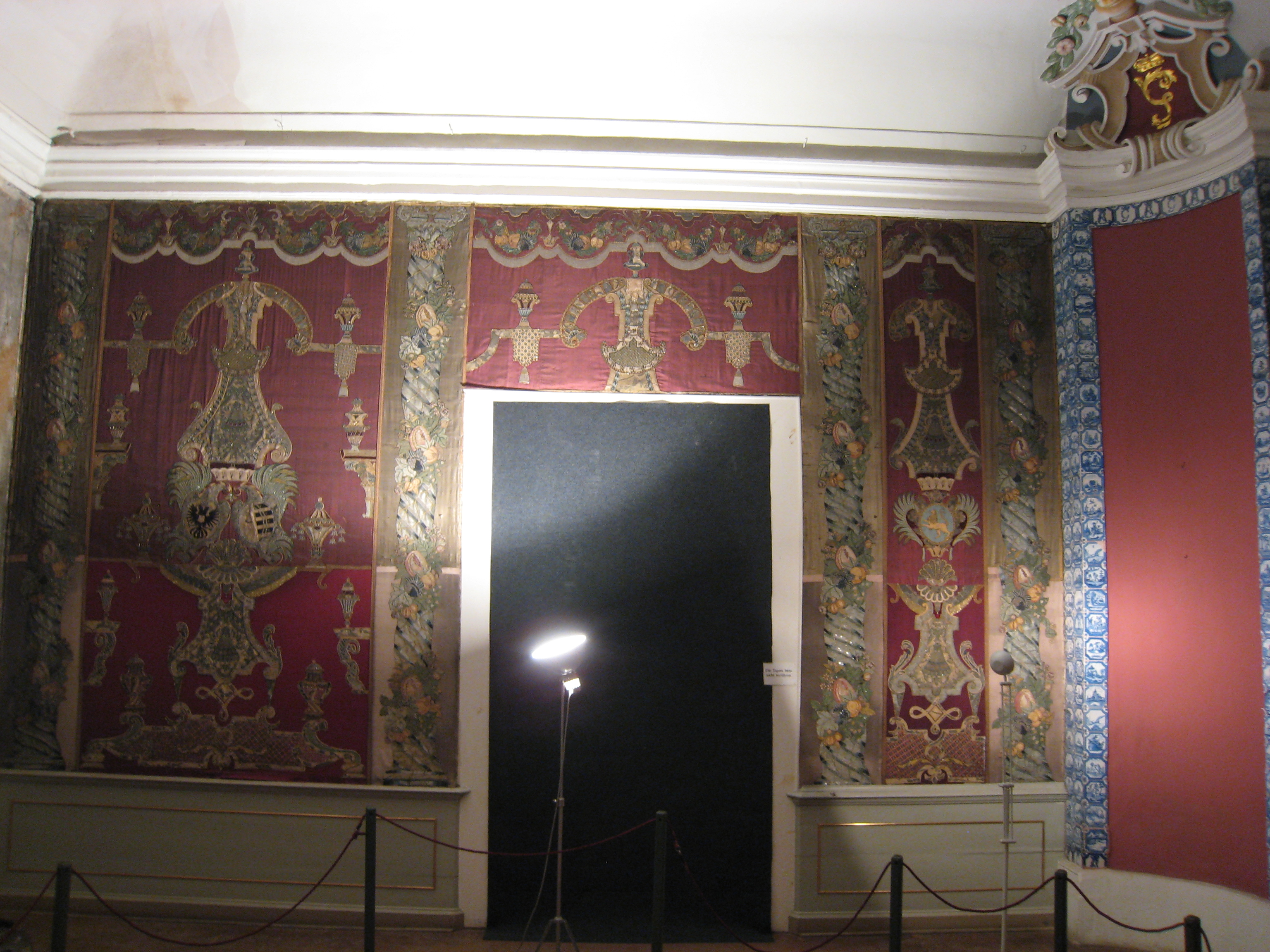 Schmelzzimmer Arnstadt